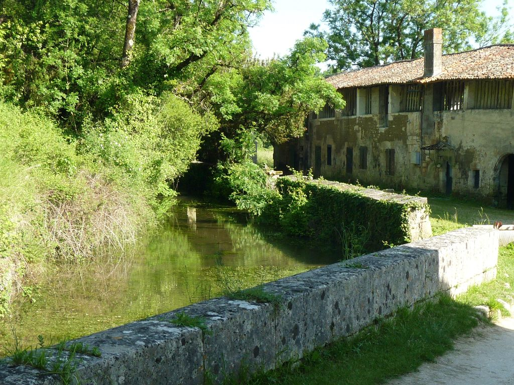 river Eaux-Claires at Puymoyen, Charente, France